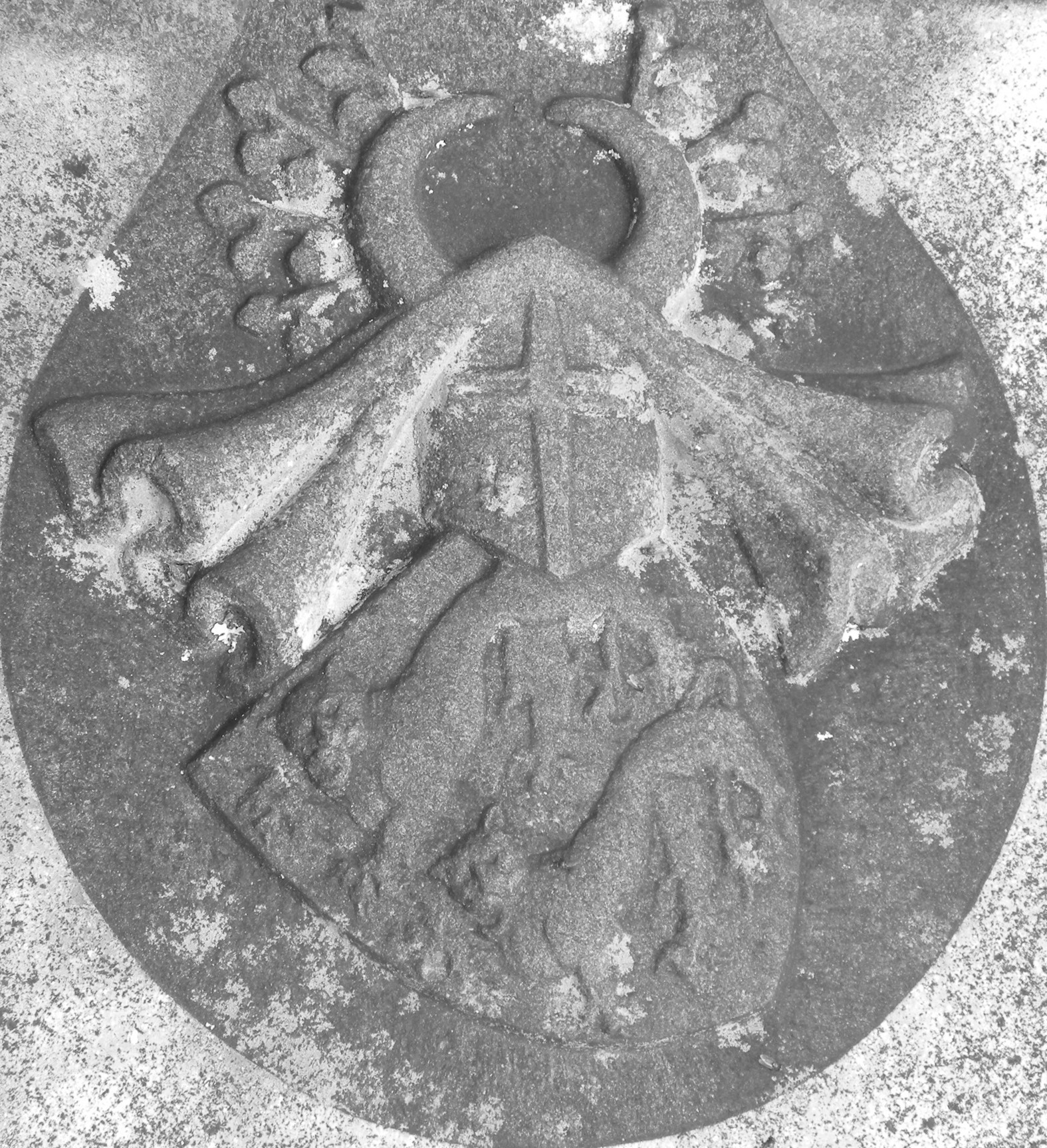 Coat of arms of Karl Christian Kraft von Hohenlohe-Oehringen. Cemetery, Tatranská Javorina, Slovakia.